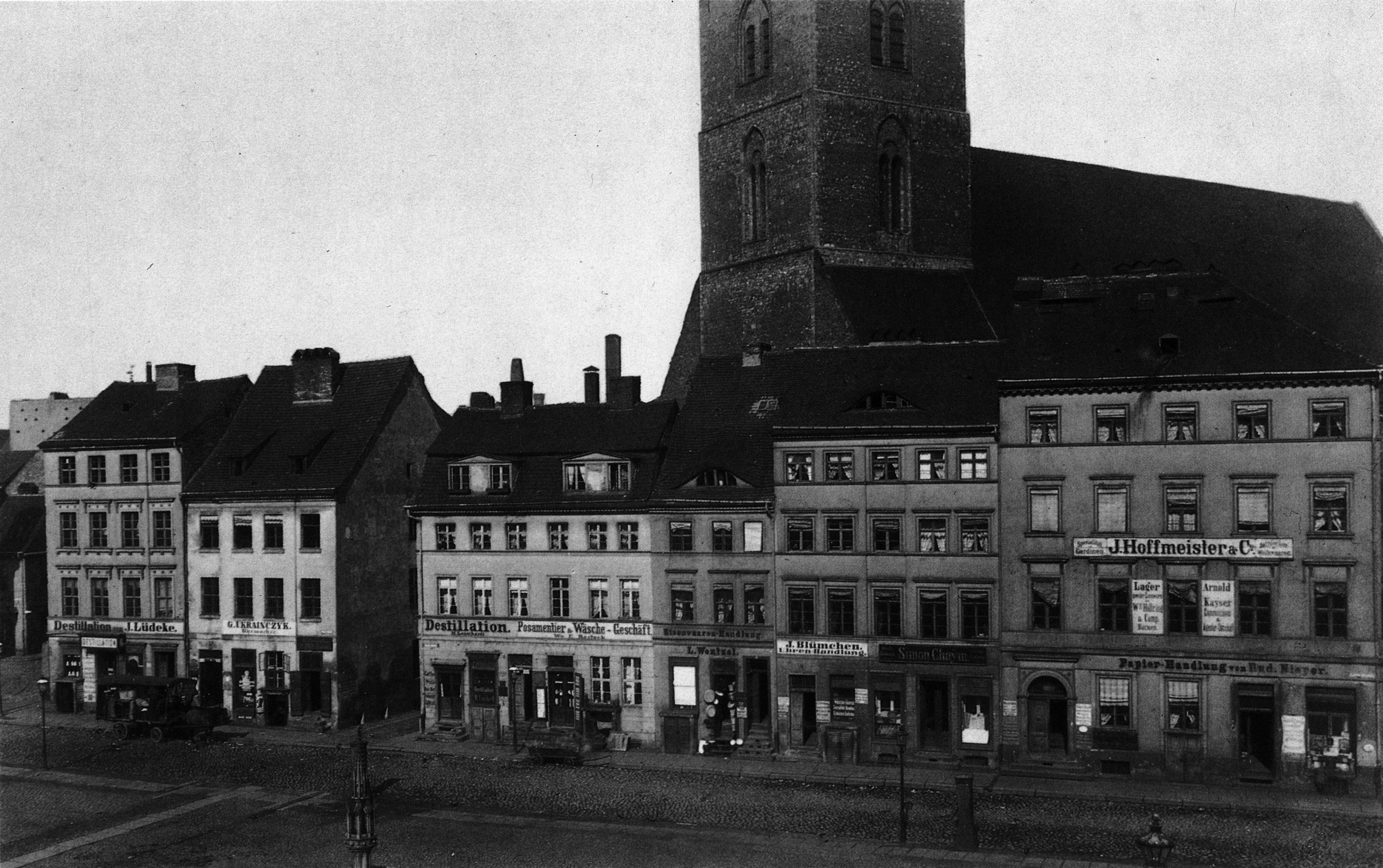 The Neuer Markt (“new marketplace”) at the foot of St. Mary's Church in Old Berlin. At this place there is now an open square with the Neptunbrunnen (“Neptune's fountain”) at its center.